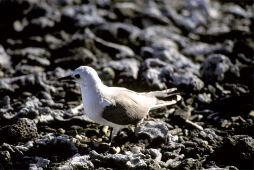 A juvenile Blue Noddy Anous ceruleus on the bare volcanic rock of Ducie Atoll, Pitcairn islands